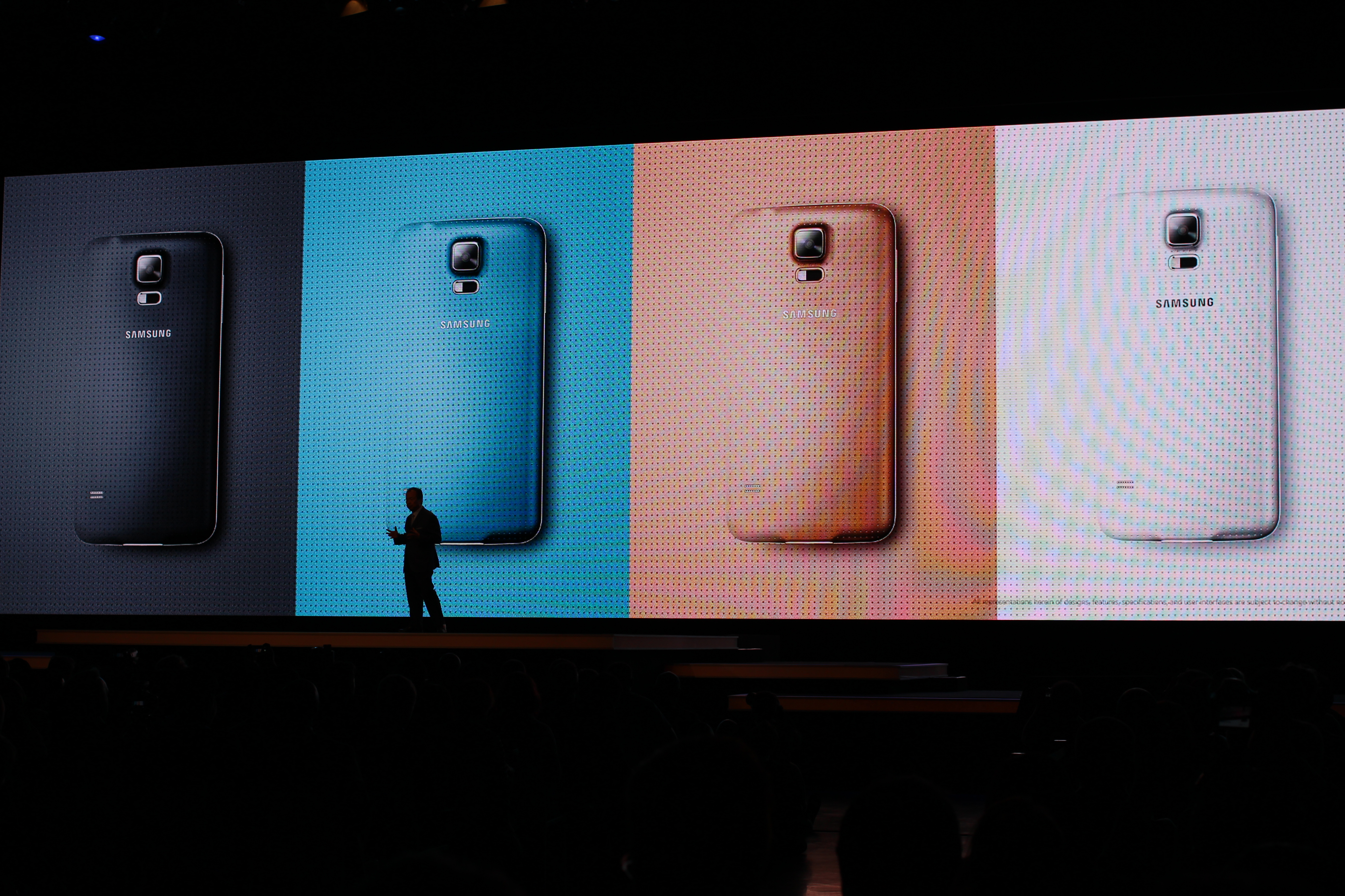 Samsung Galaxy S5 unveiled at the 2014 Mobile World Congress